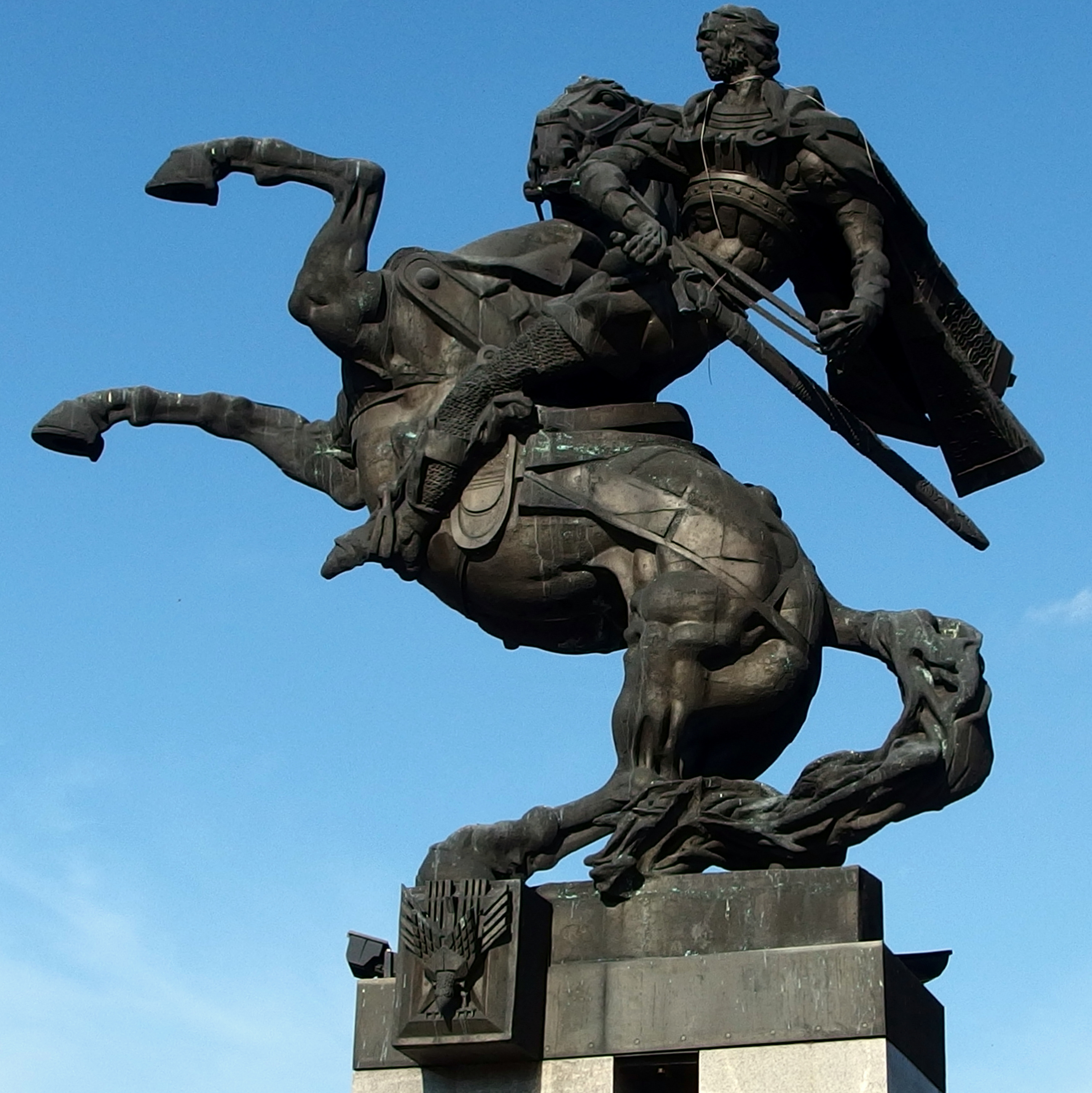 2014-06-20 in Veliko Tarnovo.